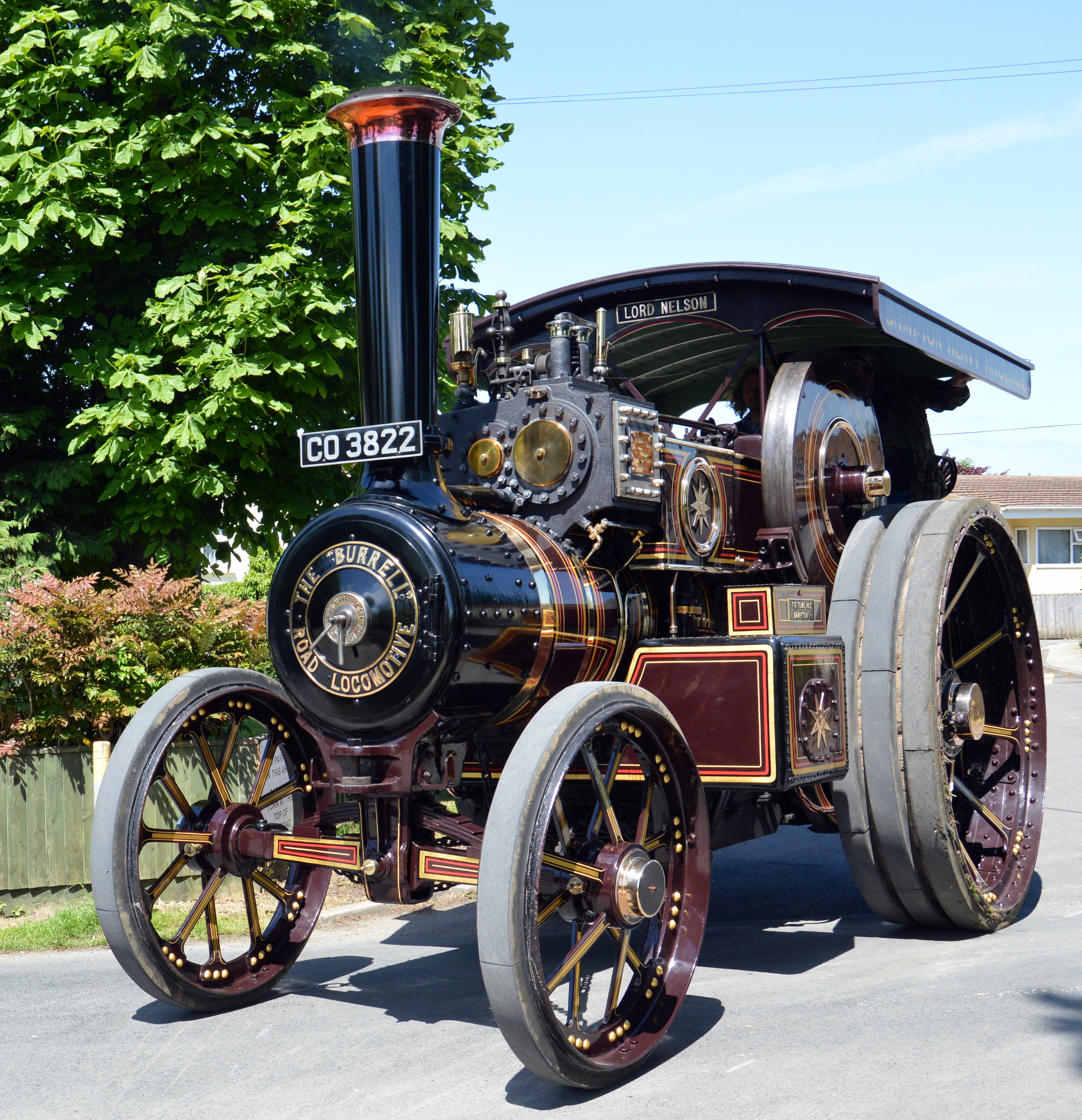 Heavy steam engine negotiating narrow bridge at entrance to steam rally in Lechlade.